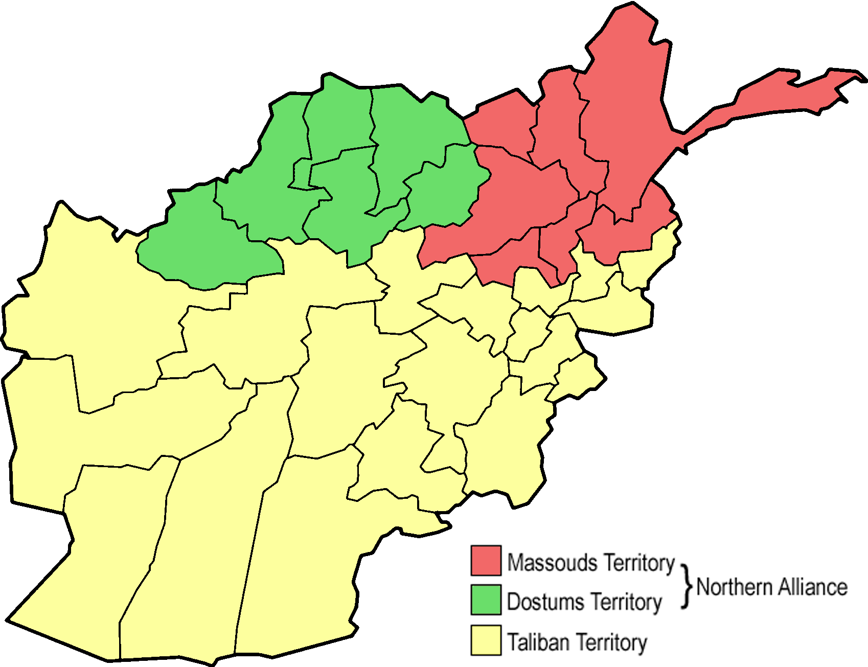 based loosely on (CNN) self-made from PD Image:Afghanistan map.png